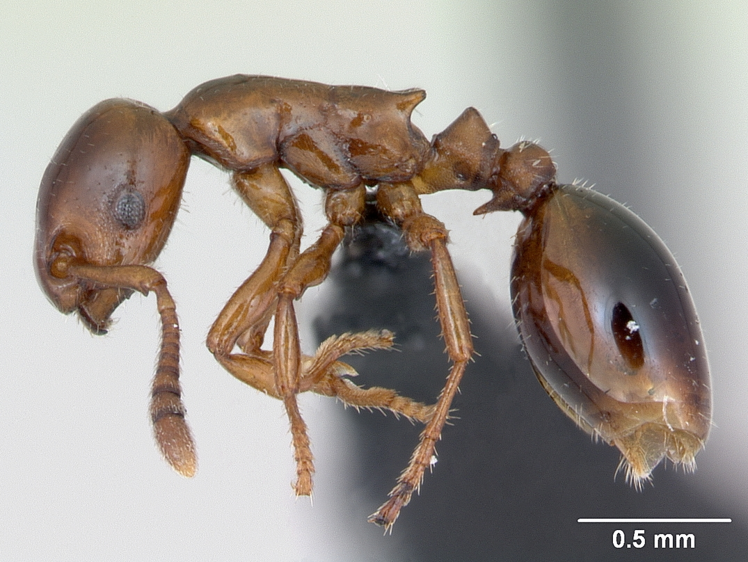 Profile view of ant Formicoxenus nitidulus specimen casent0173159.